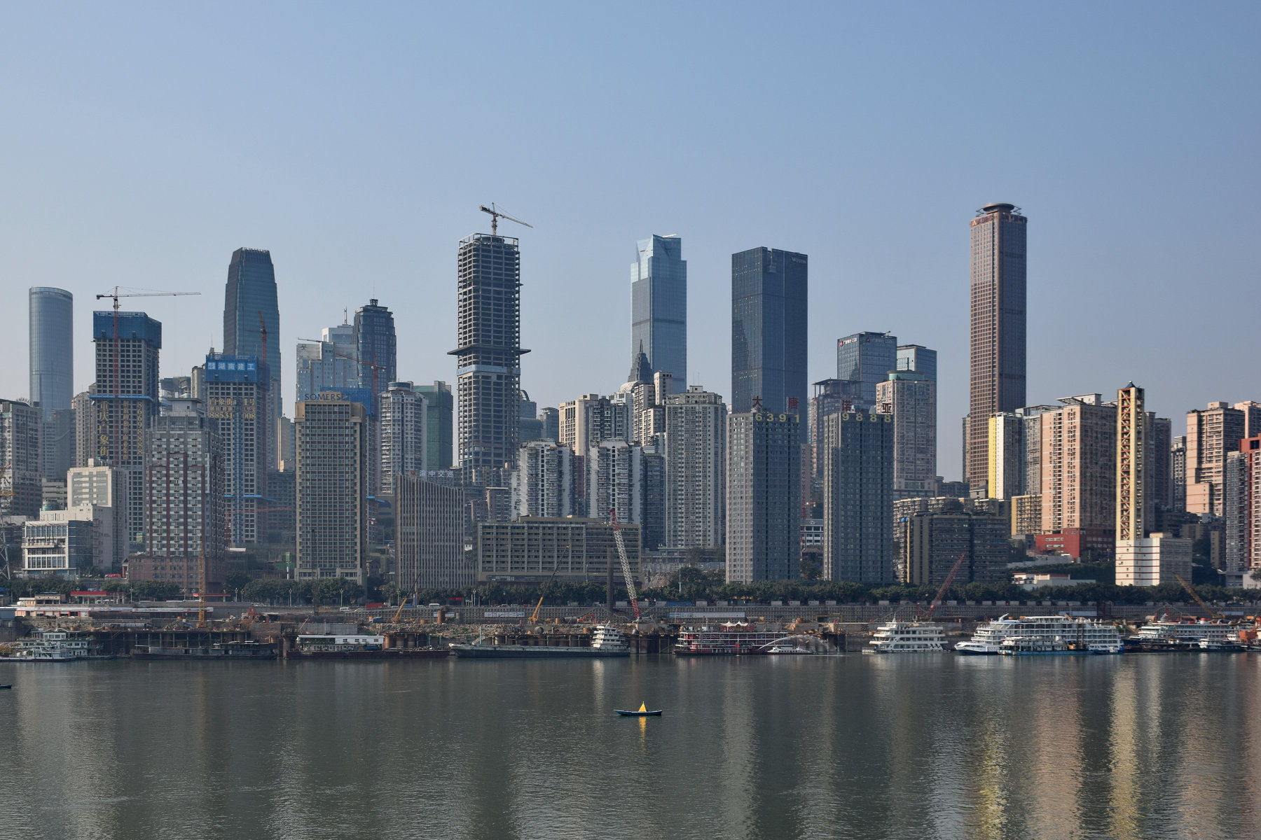 Skyscrapers in Jiefangbei CBD, Chongqing